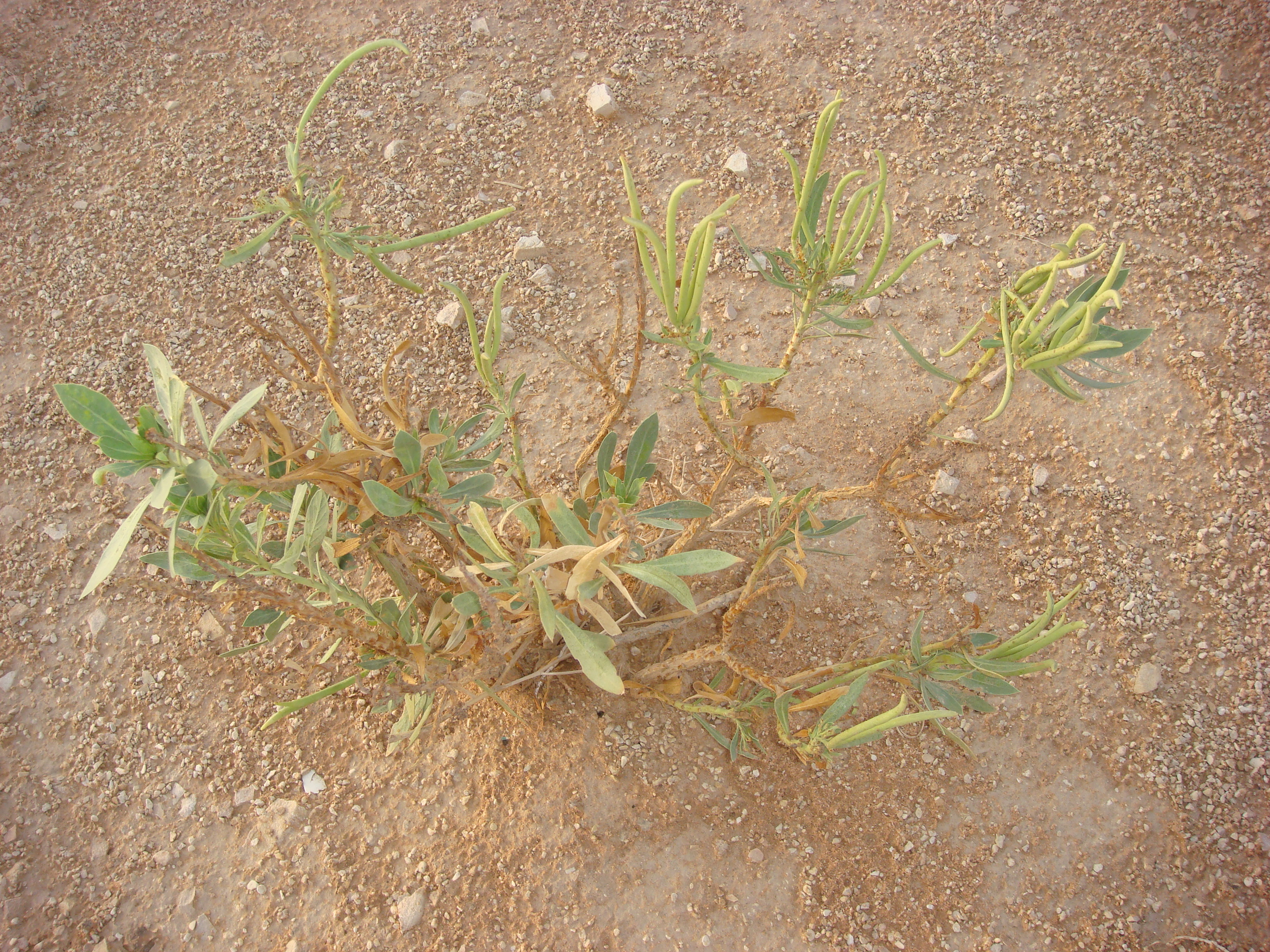 plant in desert